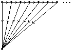 Example of an abstract rewriting system that is normalizing, but not terminating.